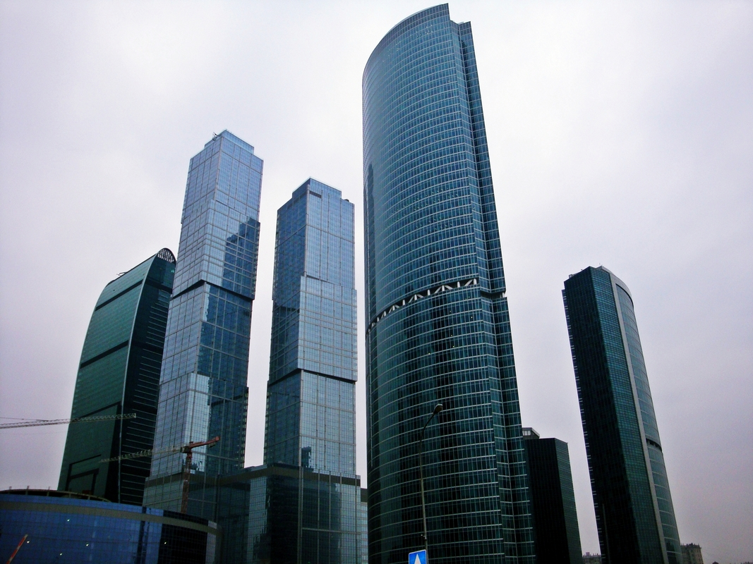 Moscow city